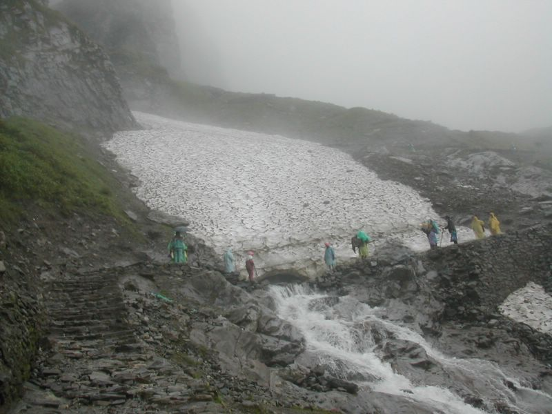 The Hemkund Glacier